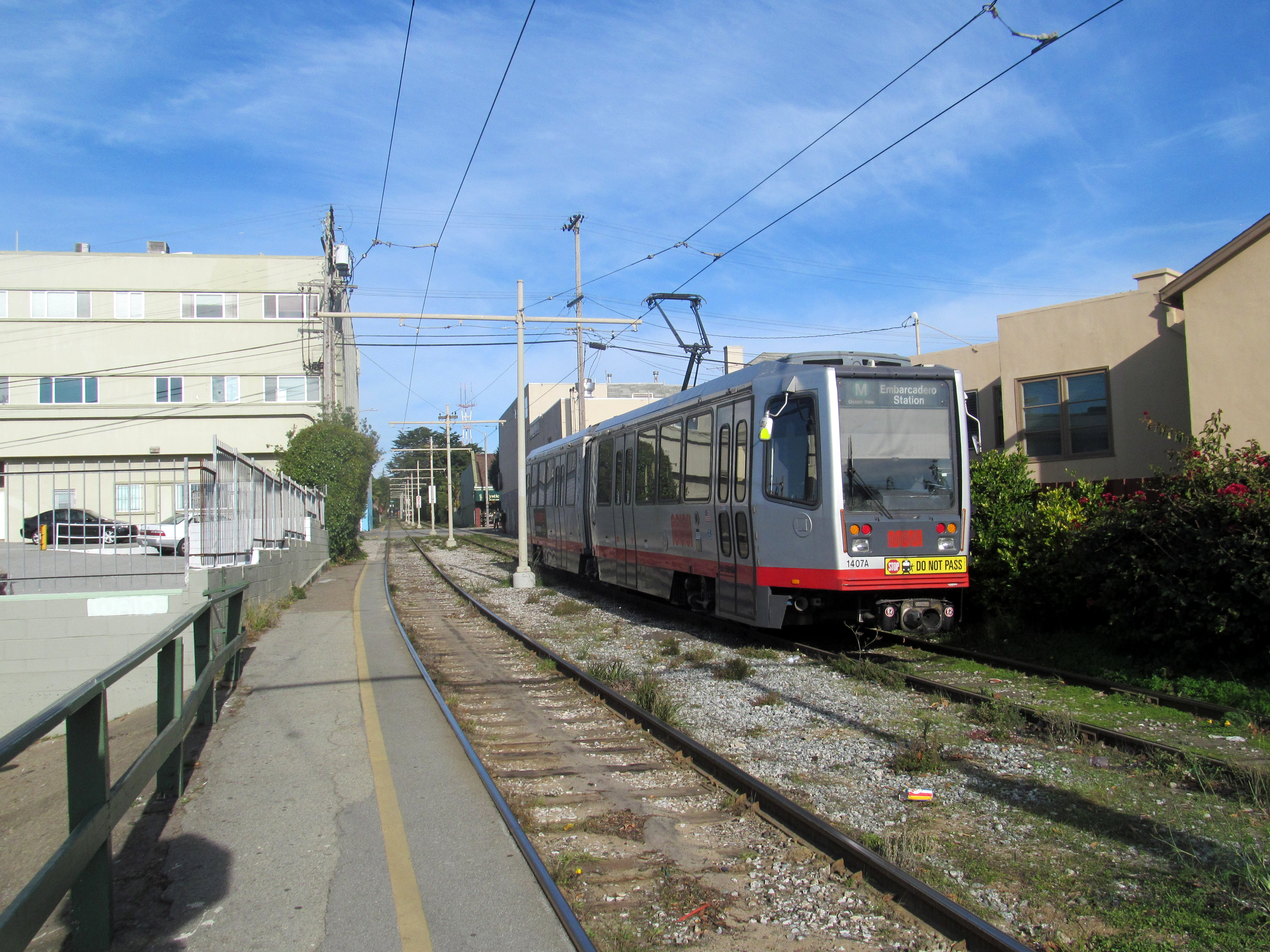 A northbound train passing the southbound platform at Eucalyptus Drive in December 2017